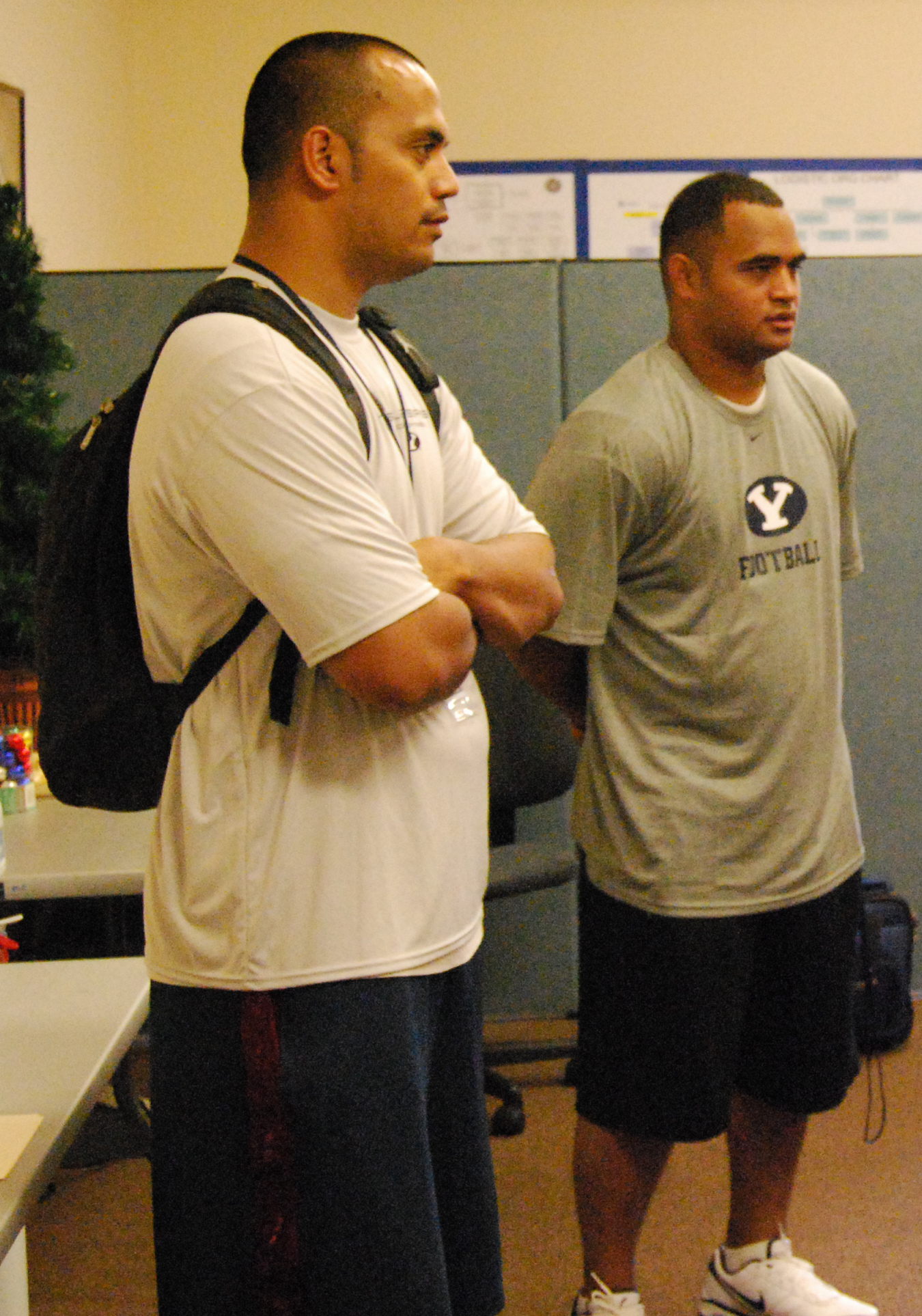 Ottoville, AS, November 30, 2009 -- The Federal Coordinating Officer for the Federal Emergency Management Agency in American Samoa, Kenneth Tingman, and Evelyn Langford, American Samoa Governors Authorized Representative, discuss the recovery status with former Chicago Bears football player, Gabe Reid (white t-shirt) and former Philadelphia Eagles football player, Reno Mahe (gray t-shirt). Reid and Mahe recently visited the island to observe the tsunami damage and to thank the workers assisting with disaster recovery. From left to right: Gabe Reid, Reno Mahe, Evelyn Langford, Kenneth Tingman. FEMA/Casey Deshong